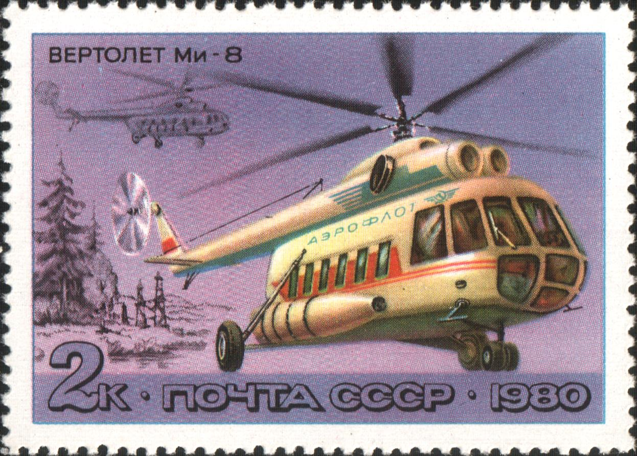 USSR stamp